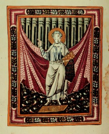 Saint John portrait from the Gospel of Queen Mlke